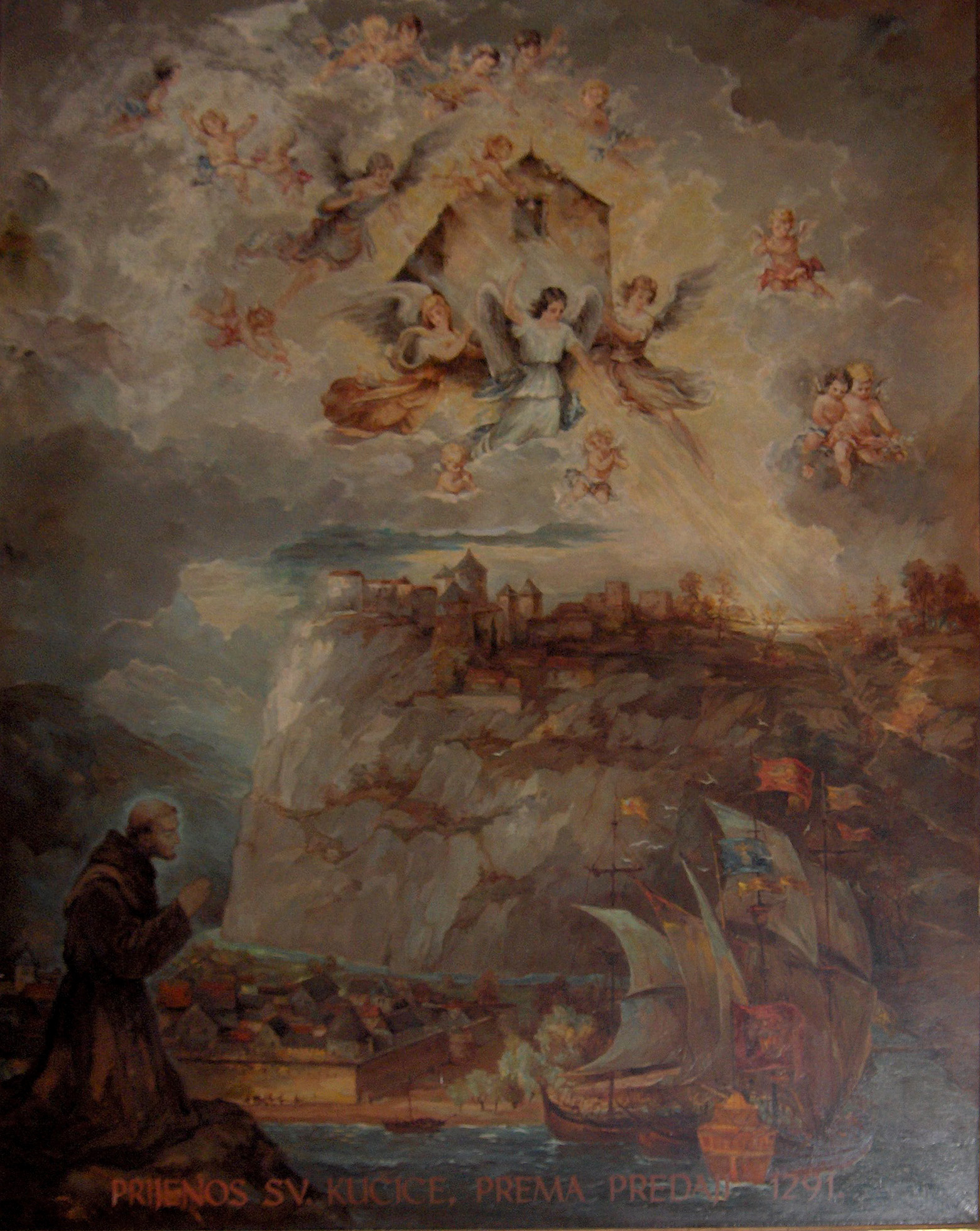 According to legend this sanctuary was carried over from Nazareth to Trsat by angels on the 10th May 1291; church of Our Lady of Trsat, Rijeka, Croatia